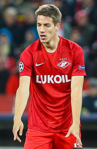 Pasalic during Spartak Moscow - Liverpool in 2017.